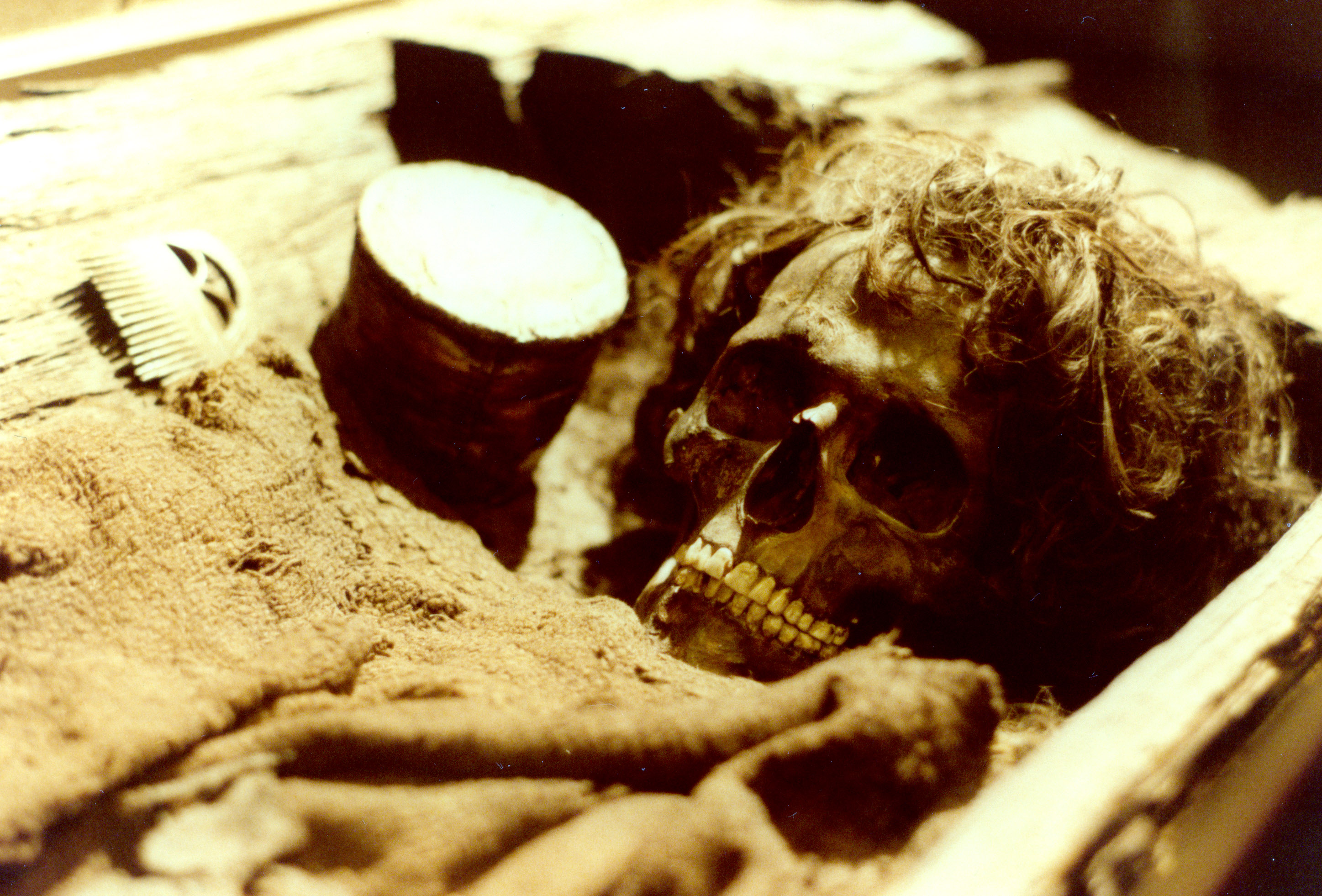 Borum Eshøj Man of the Nordic Bronze Age at National Museum of Copenhagen, Denmark